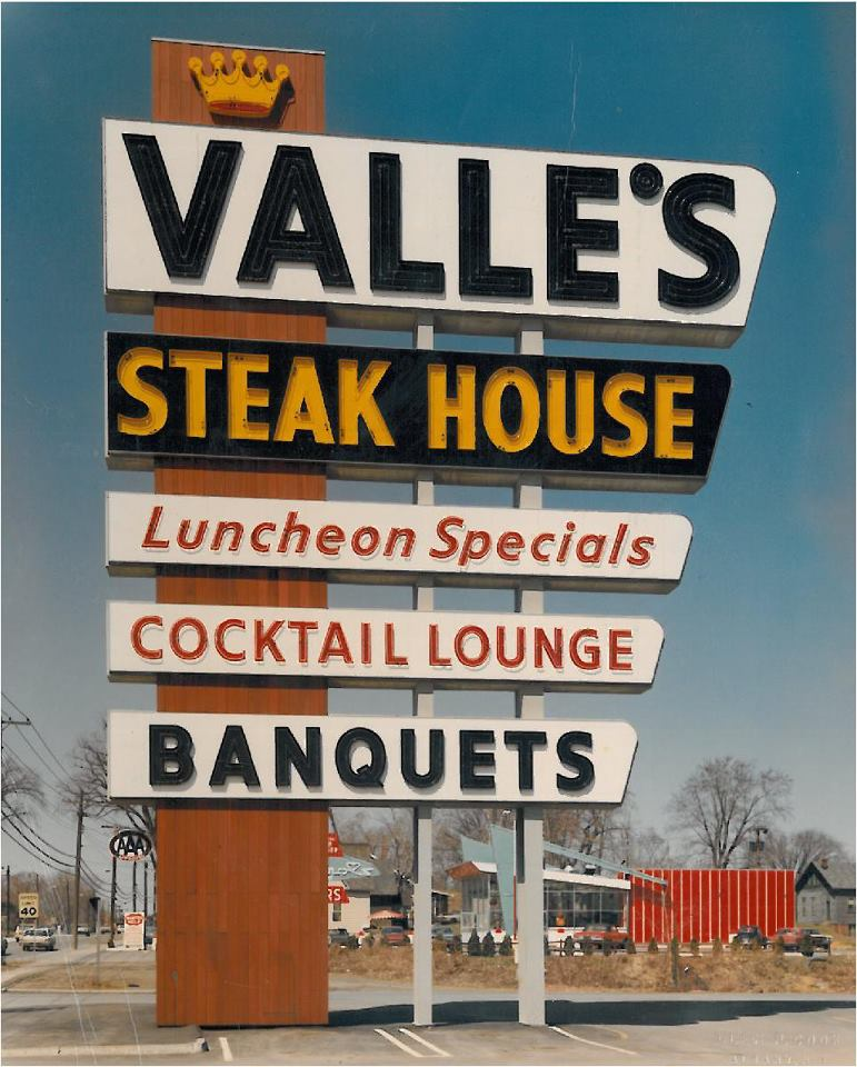 This photo was taken in 1969 at the Valle's Steak House in Albany, NY. The sign was originally designed and fabricated by Judge Sign, an Albany company that was eventually bought out by Saxton Signs. Although the sign no longer exists, the Valle's building is still standing as Bryant and Stratton College. The photo was released under the terms of the CC-BY-SA licensing agreement by Pat Boni of Saxton signs. Contact information: Saxton Sign 1320 Route 9, Castleton, New York 12033 Nationwide toll-free 800.942.6366